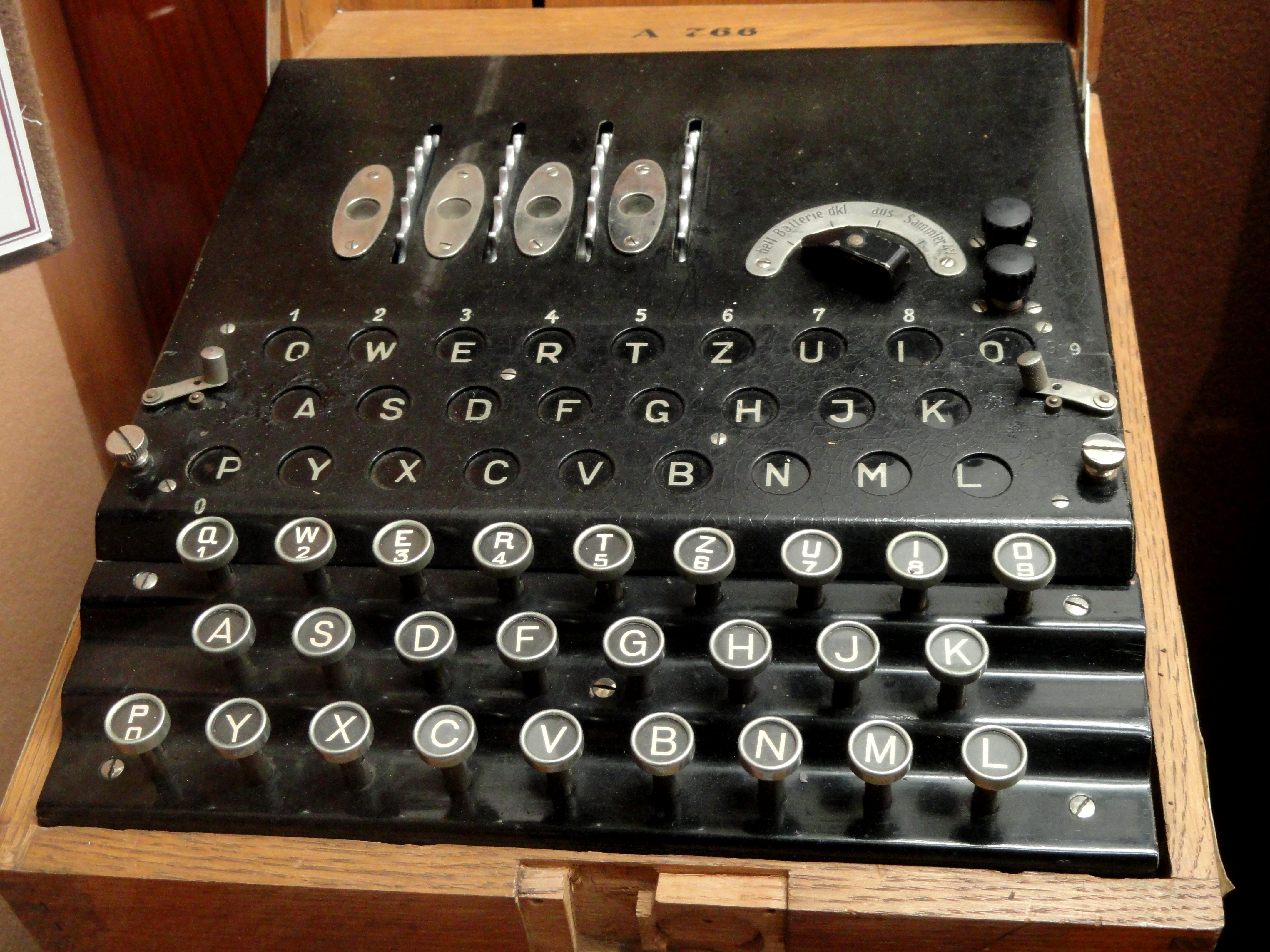 Exhibit in the National Cryptologic Museum, Fort Meade, Maryland, USA. All items in this museum are unclassified; items created by the United States Government are not subject to copyright restrictions.